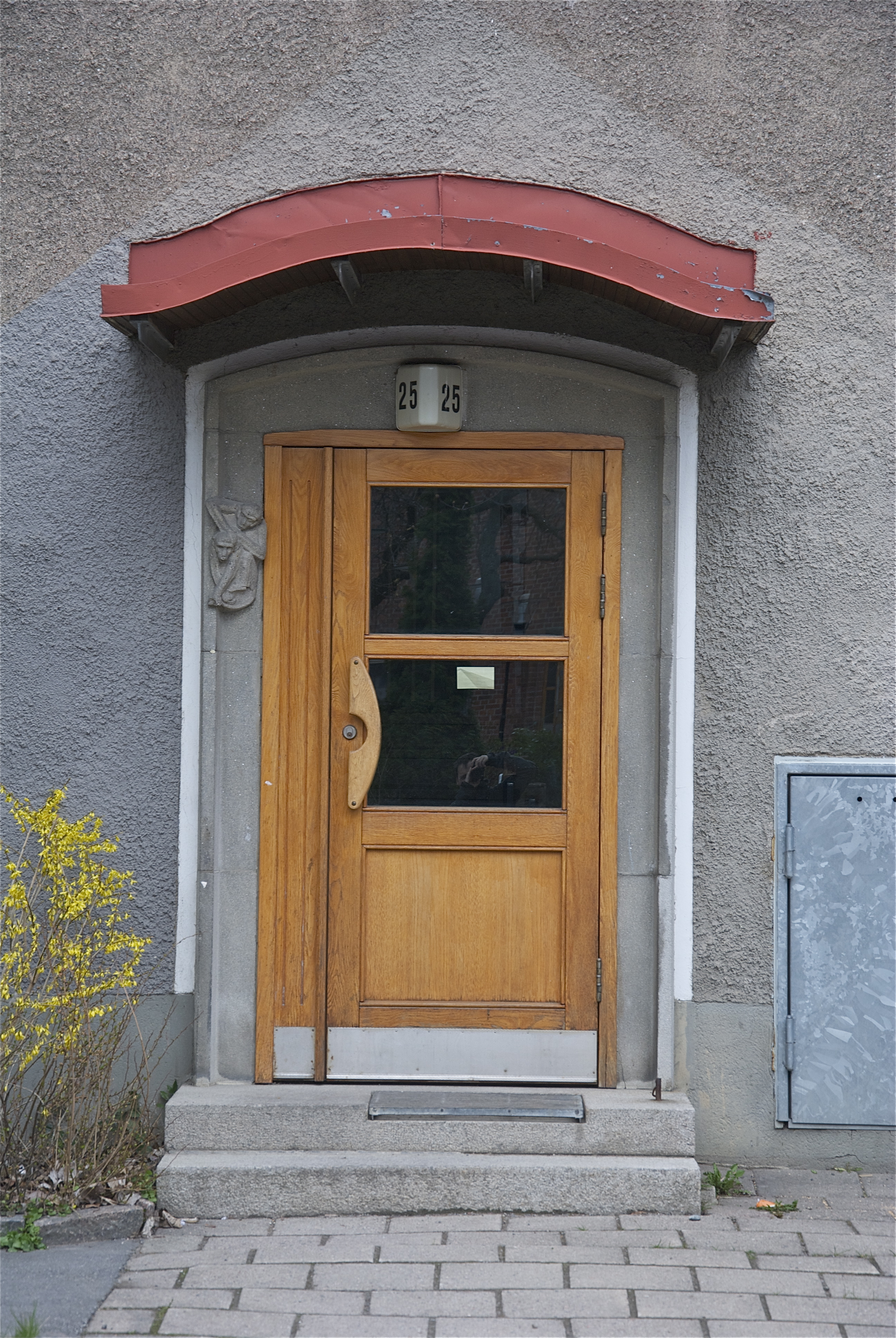 Entre i Veckodagsområdet, Hökarängen.